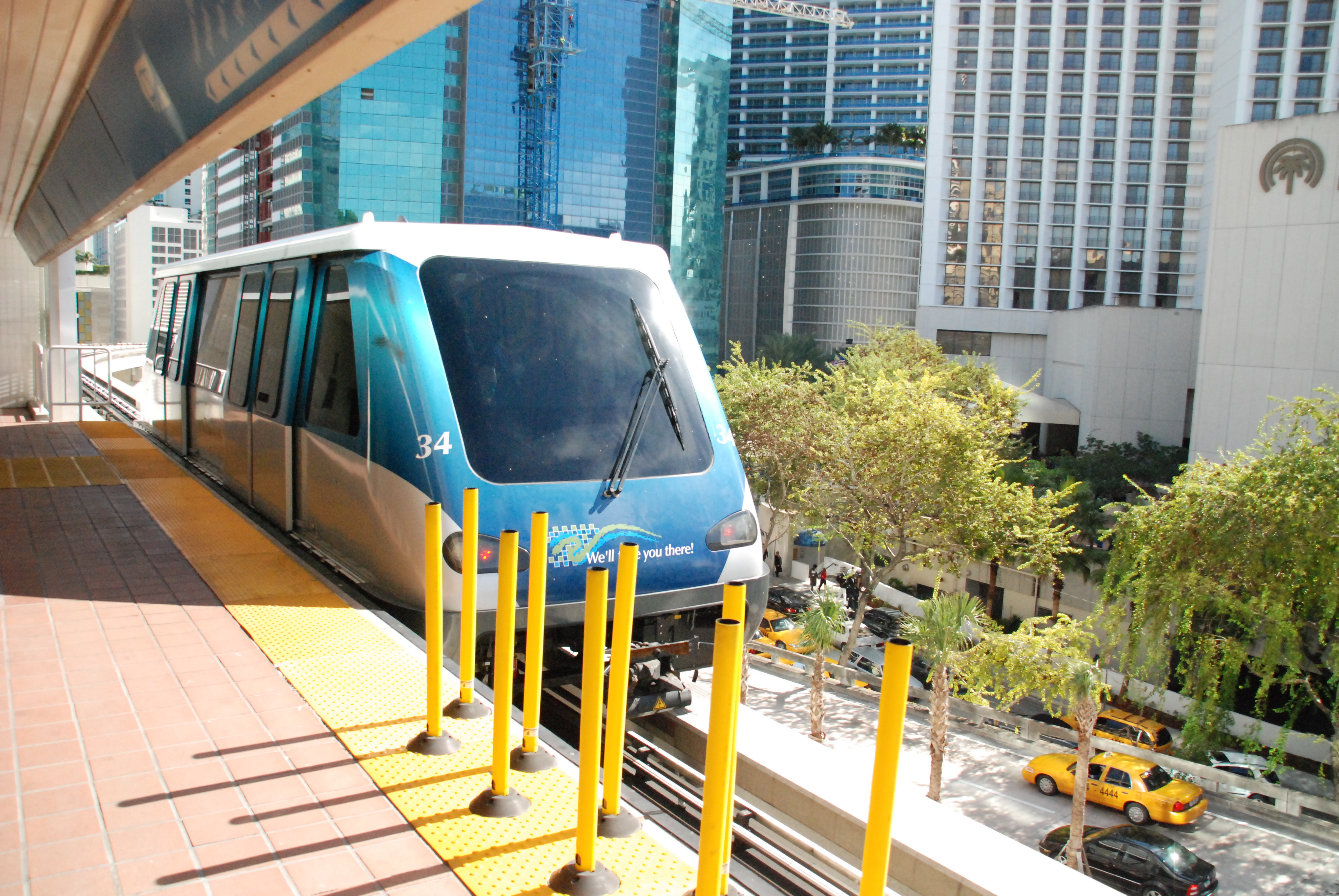 Outer Loop car departing Knight Center Metromover station in CBD, Downtown Miami, Florida, United States